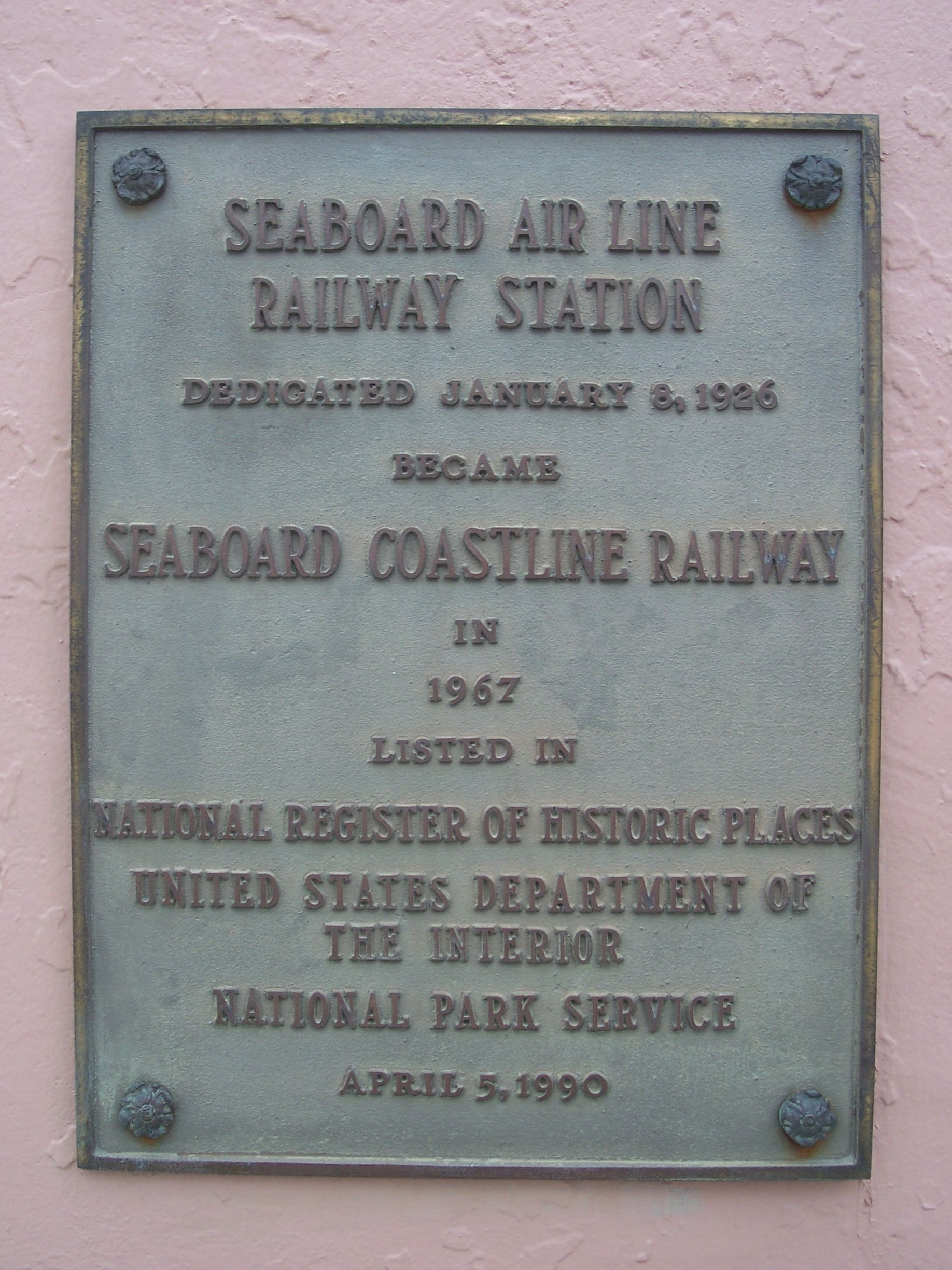 Deerfield Beech Station